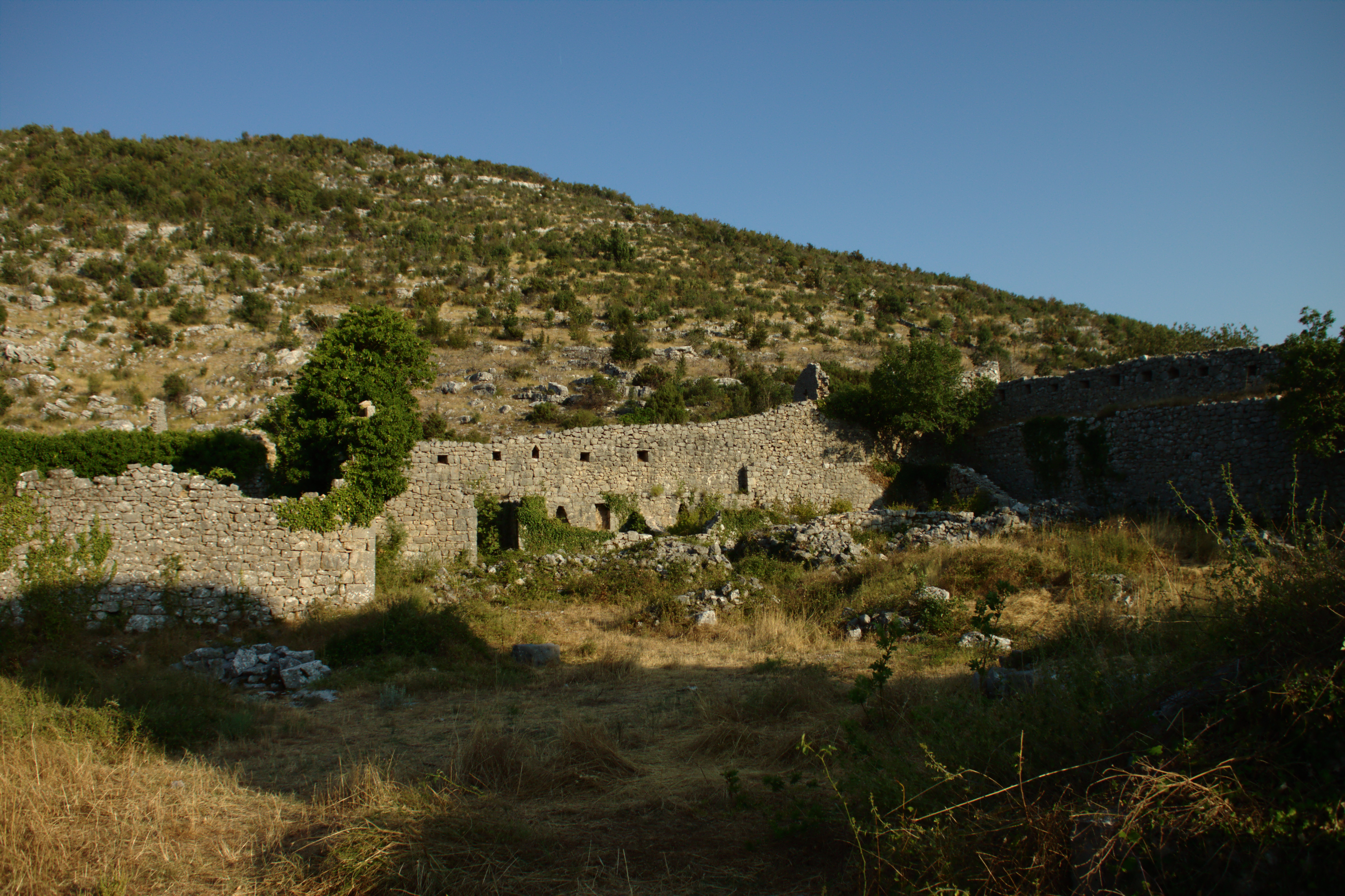 Castle ruins near the town of Hutovo, Bosnia and Herzegovina